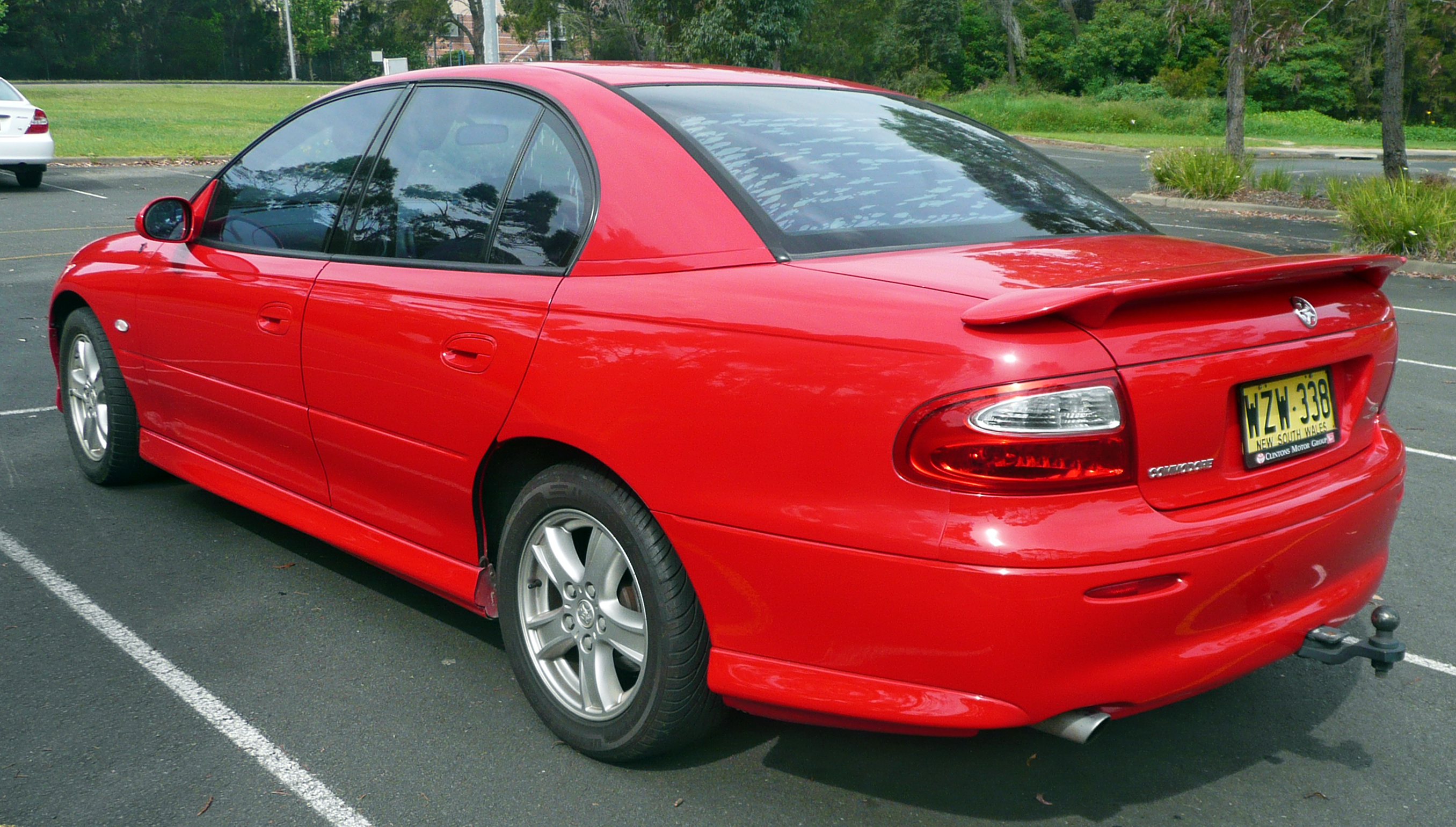 2000 Holden Commodore (VX) S sedan. Photographed in Loftus, New South Wales, Australia.